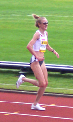 Paula Radcliffe at the 2004 Gateshead Grand Prix, where she won the 10,000m.